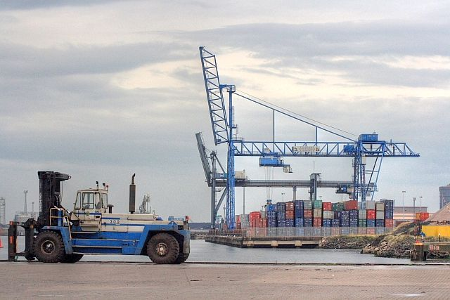 Container Terminal, Teesport Viewed from across the mouth of Tees Dock. Planning permission has been obtained for a new deep water terminal stretching up to one kilometre downstream on this bank of the Tees.